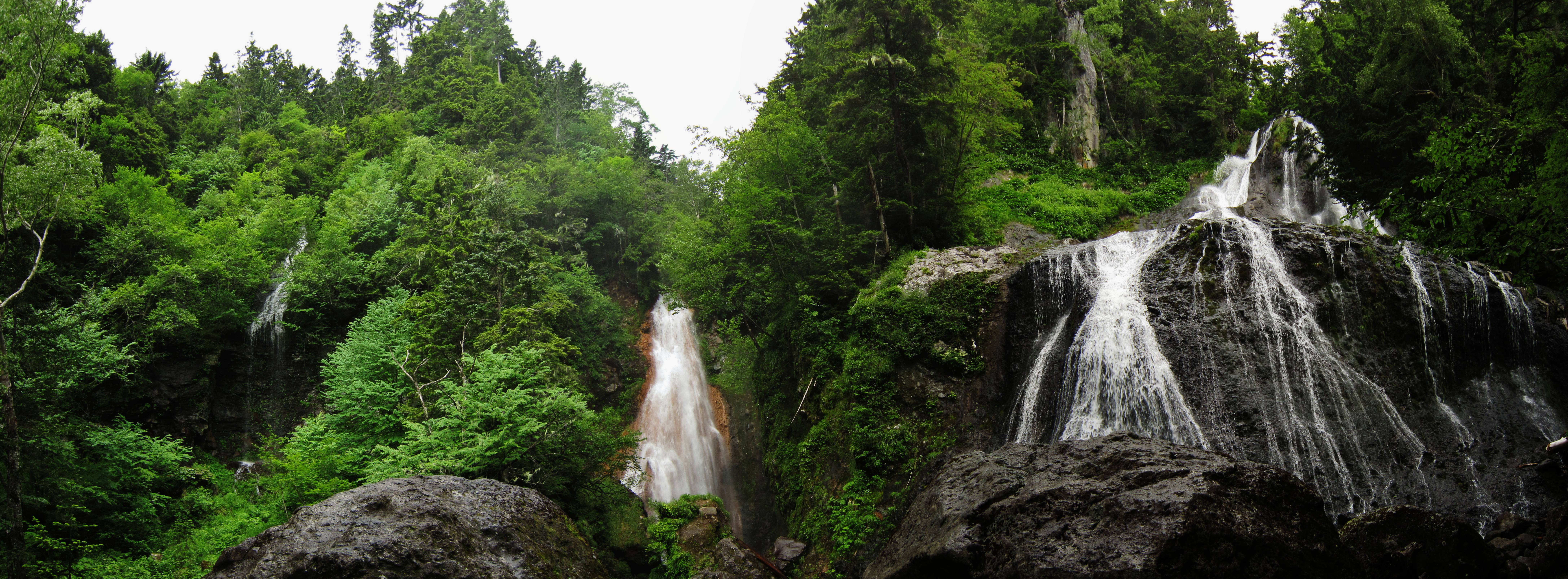 Sanbon Falls.